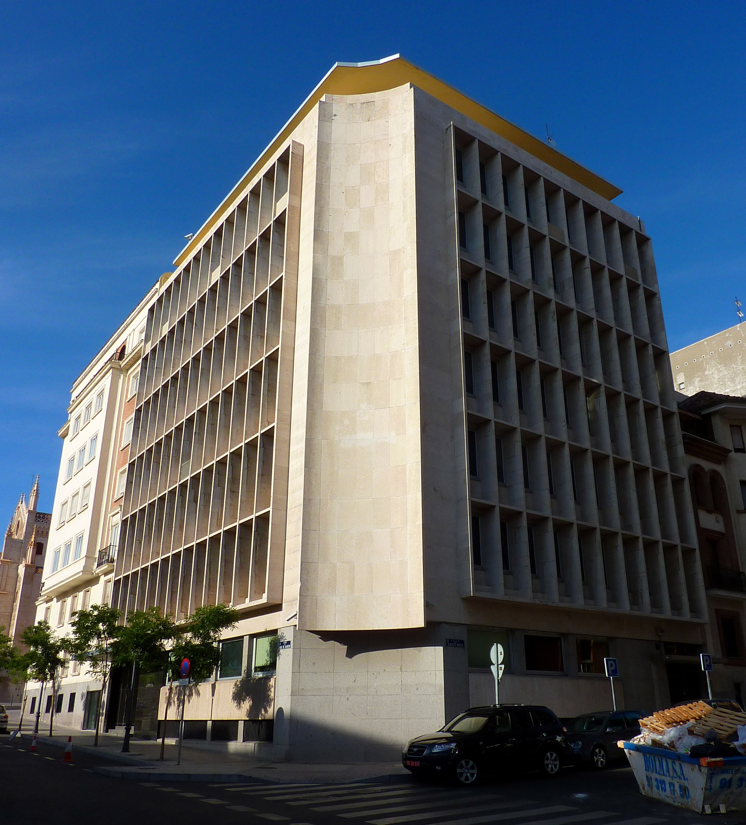 Aldeasa Building of the Prado Museum.